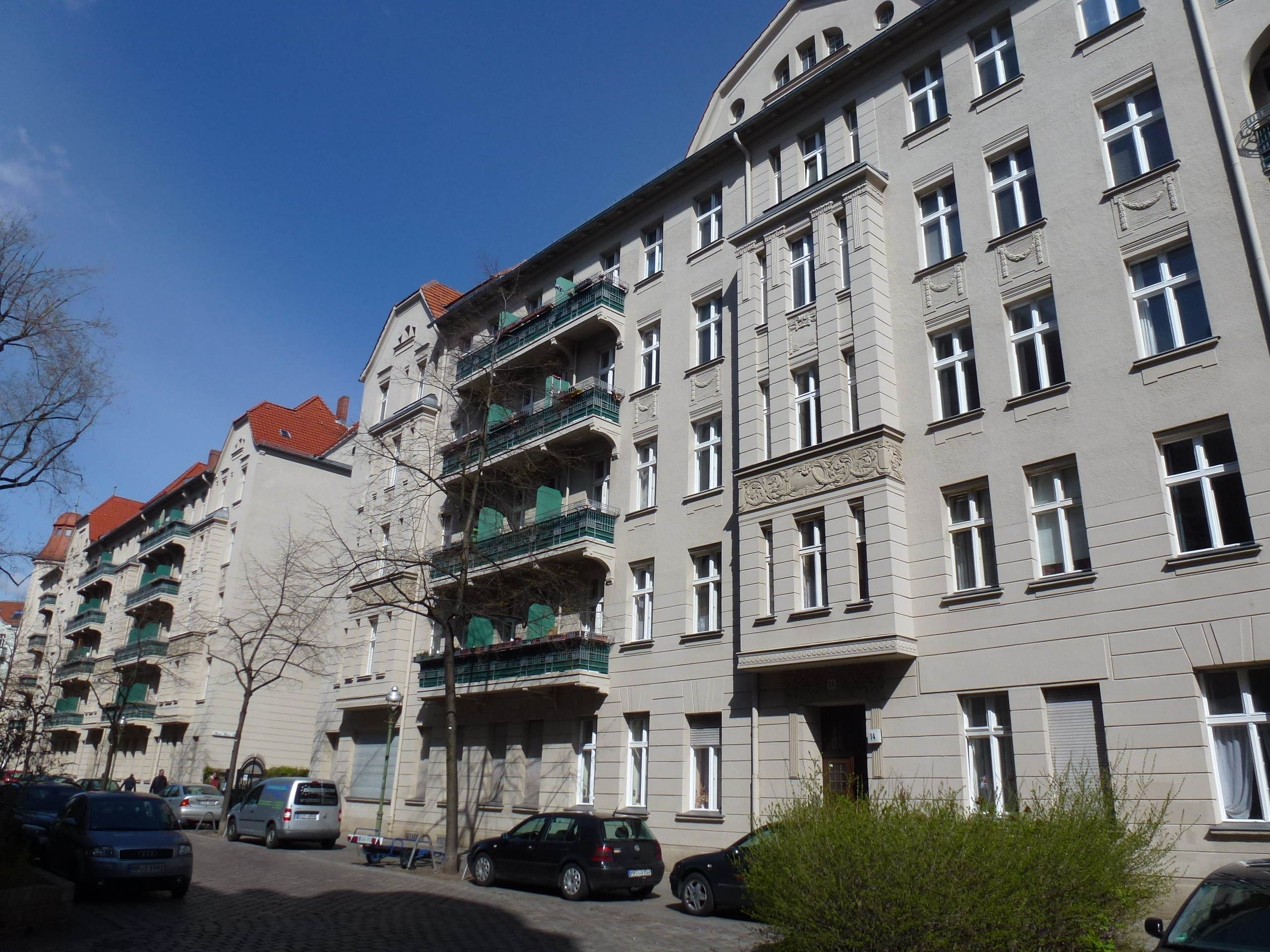 Berlin-Wedding Malplaquetstraße Karl-Schrader-Haus